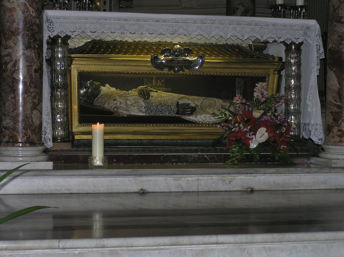 Sarcophagus of saint Vincent Pallotti (Vincenzo Pallotti) in the altar in the church Salvatore in Onda, Rome